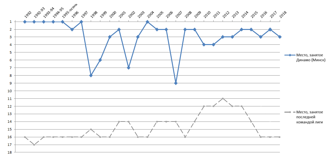 Results Dinamo (Minsk) in the championship of Belarus